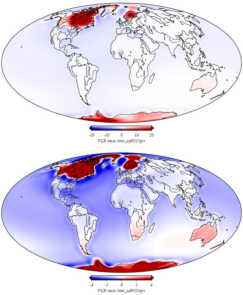 Modeled post-glacial rebound based on data from the GRACE (Gravity Recovery and Climate Experiment) satellites. These models are used to remove the post-glacial rebound signal from the GRACE data. They are given in a change in mass over change in time, in millimeters of water-density-equivalent (1000 kg/m^3) per year.